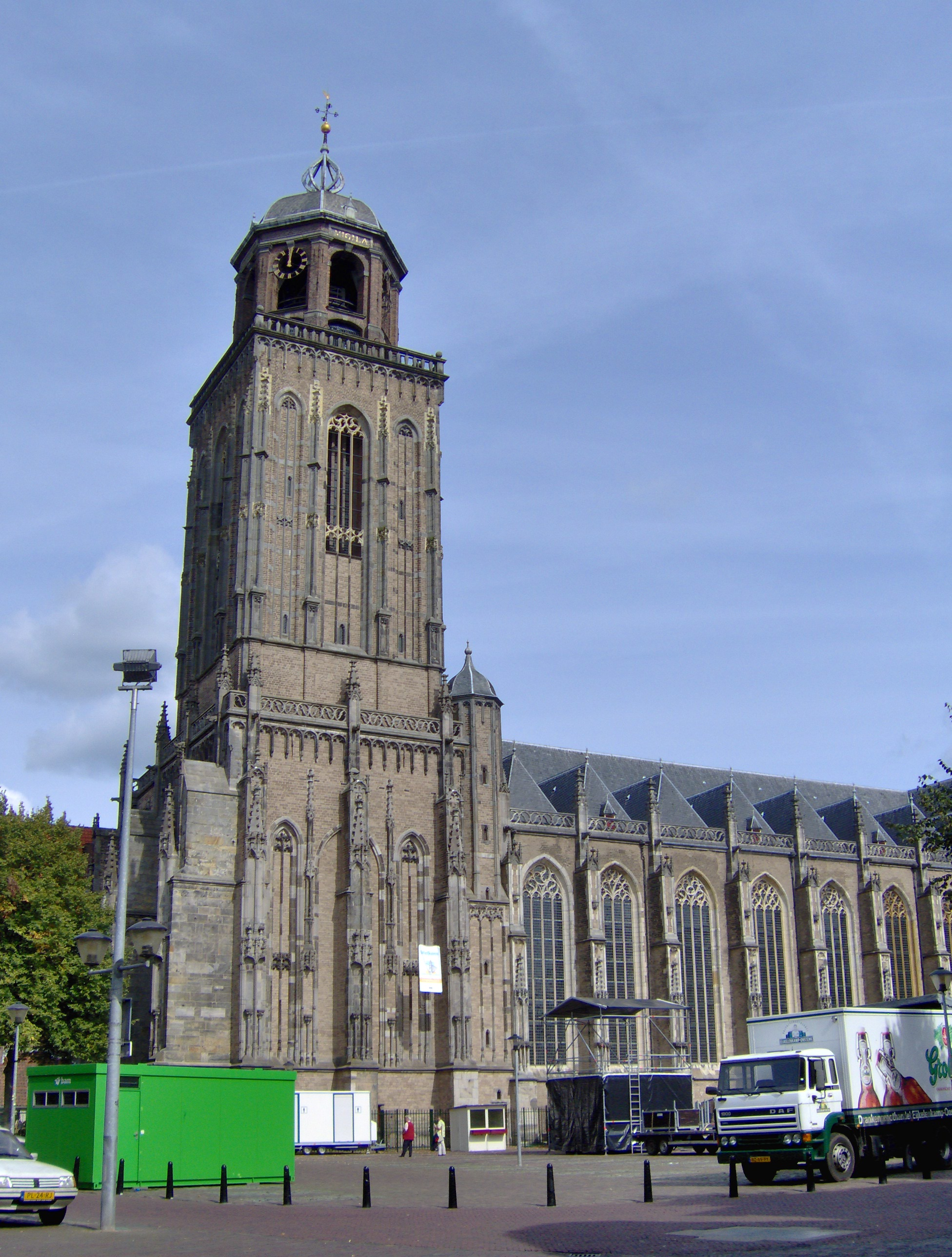 The Lebuïnus Church in Deventer, Overijssel, The Netherlands